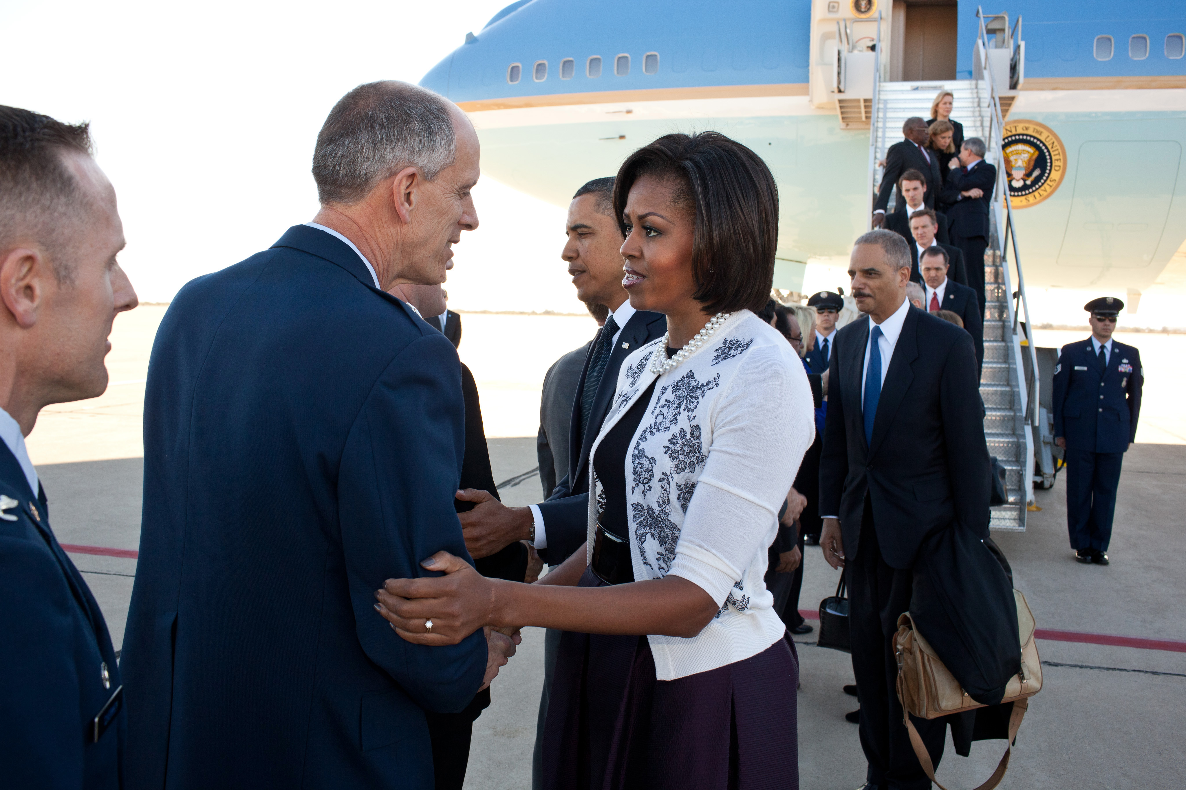 U.S. President Barack Obama, First Lady Michelle Obama and Attorney General Eric Holder arrive at Davis-Monthan Air Force Base in Tucson, Arizona to attend a memorial event dedicated to the victims of the 2011 Tucson shooting.